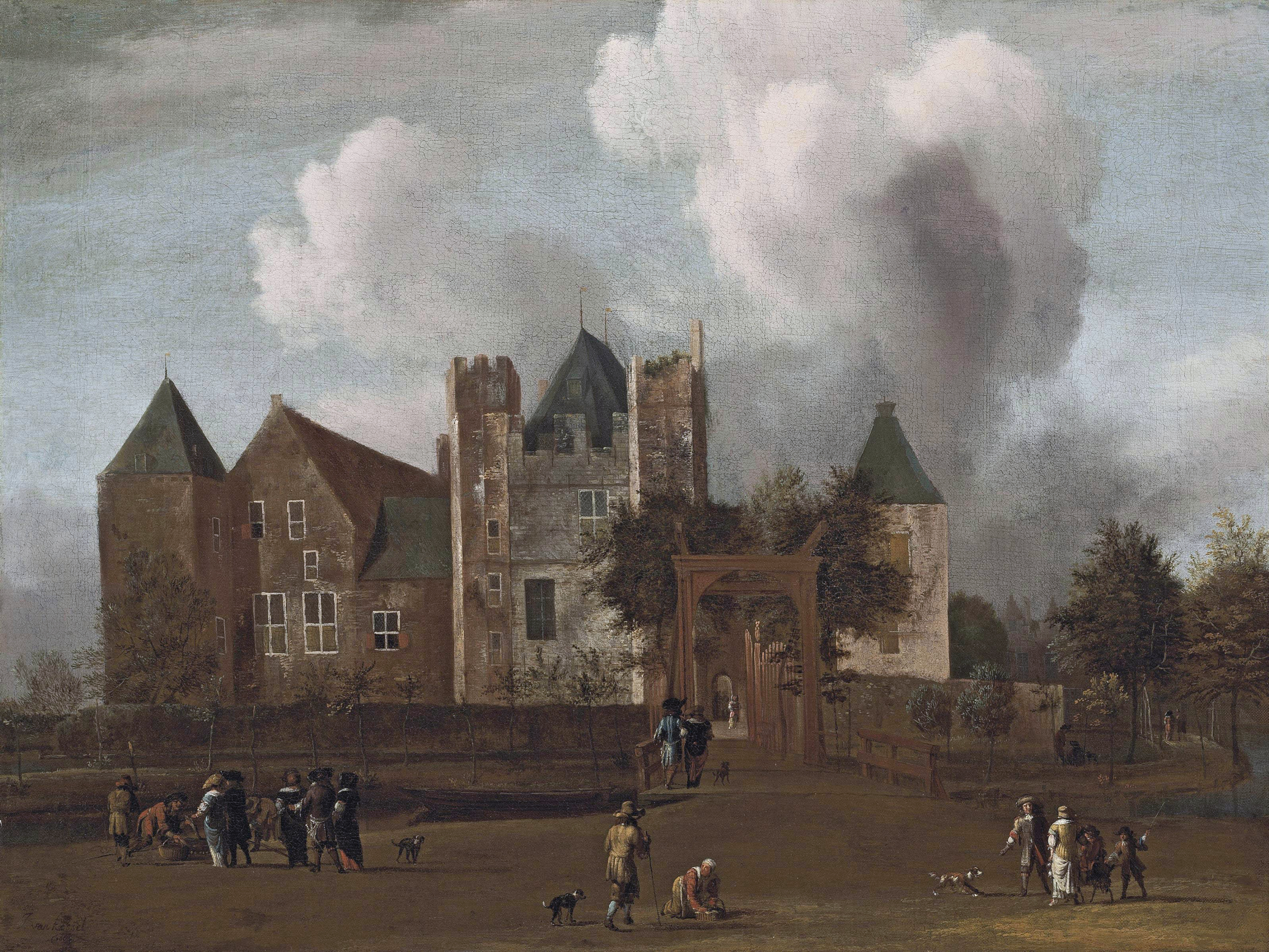 A view of Purmerend Castle, near Monnickendam, Waterland